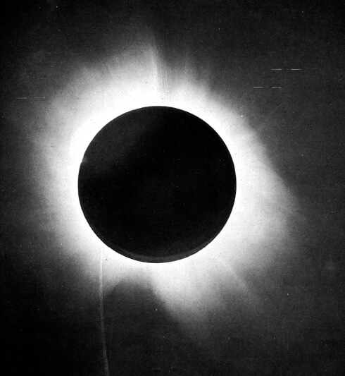 Positive (inverted) edition of Image:1919_eclipse_negative.jpg. Original caption of that image: From the report of Sir Arthur Eddington on the expedition to verify Albert Einstein's prediction of the bending of light around the sun. In Plate 1 is given a half-tone reproduction of one of the negatives taken with the 4-inch lens at Sobral. This shows the position of the stars, and, as far as possible in a reproduction of this kind, the character of the images, as there has been no retouching. A number of photographic prints have been made and applications for these from astronomers, who wish to assure themselves of the quality of the photographs, will be considered as as far as possible acceded to.